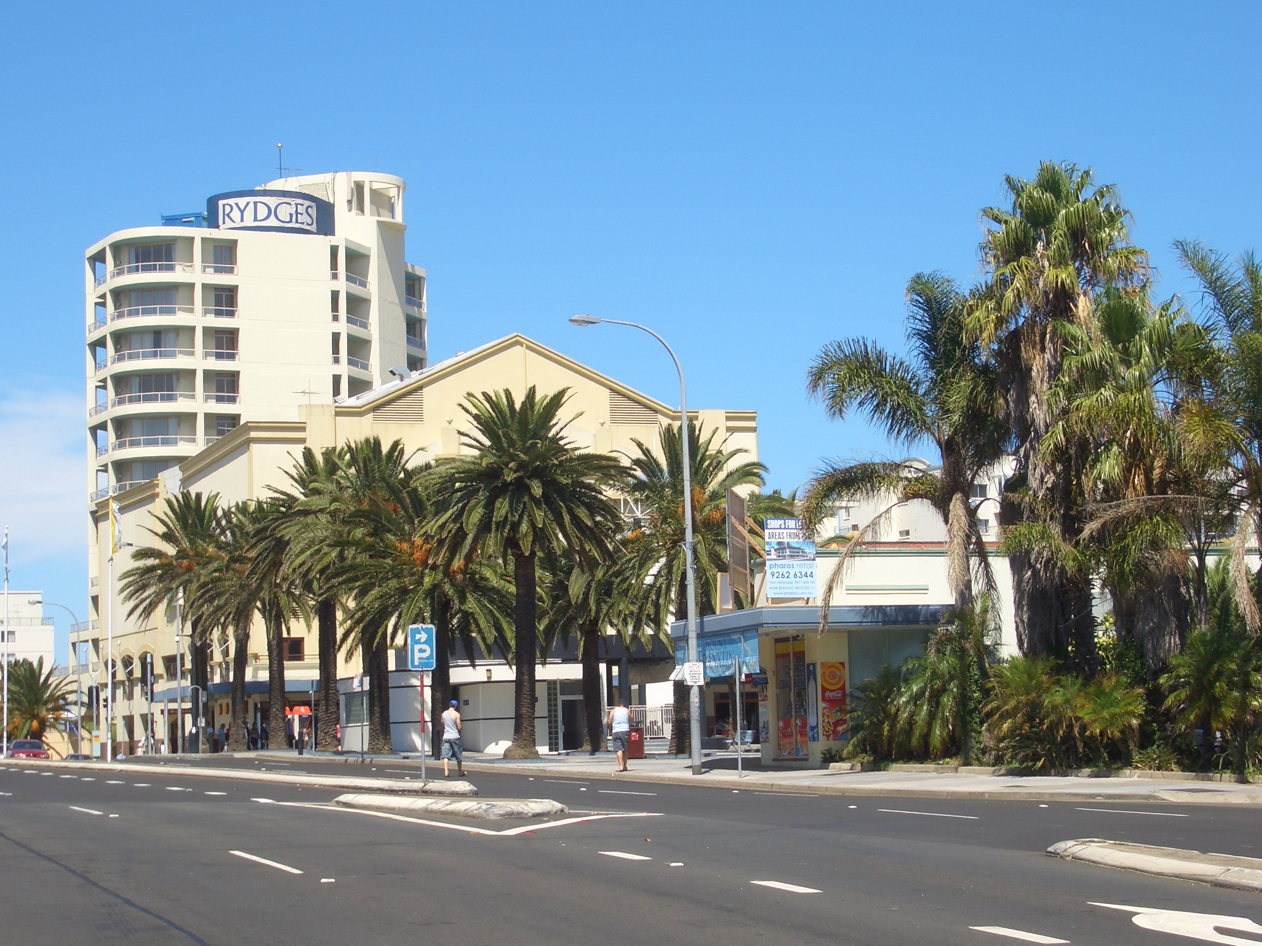 The Kingsway, Cronulla